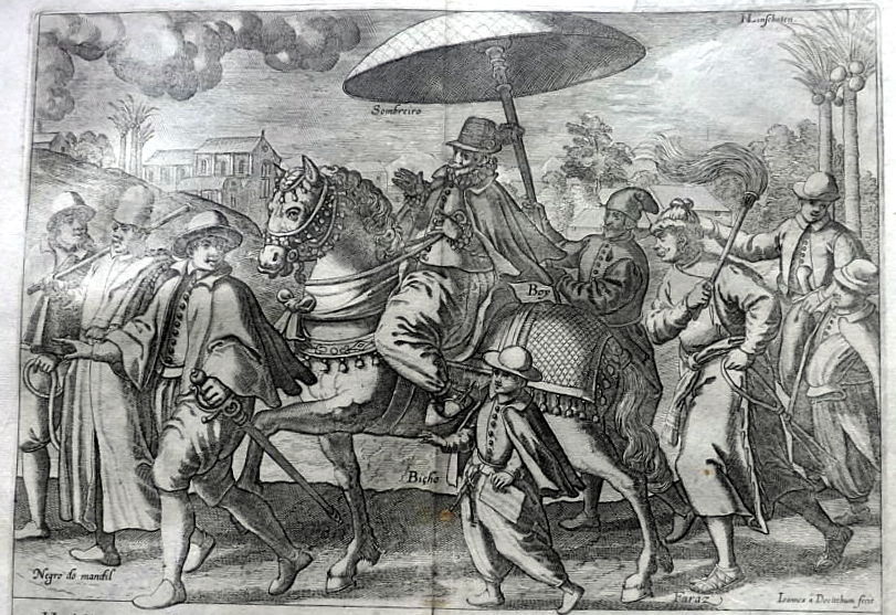 A Portuguese nobleman in a palanquin, with his retinue, from "Itinerario, voyage, ofte Schipvaert van Jan Huygen van Linschoten naer Oost ofte Portugaels Indien," Amsterdam, 1596; also: A Portuguese nobleman riding on a horse* A Portuguese nobleman riding in a palanquin* (shown above) A palanquin for Portuguese ladies* A Portuguese couple with servants* Goan and other boats* Social types, including a soldier and a bayadere* Merchants and a Brahmin* Forms of Portuguese attire* An idol-temple and a mosque* Source: ebay, May 2015